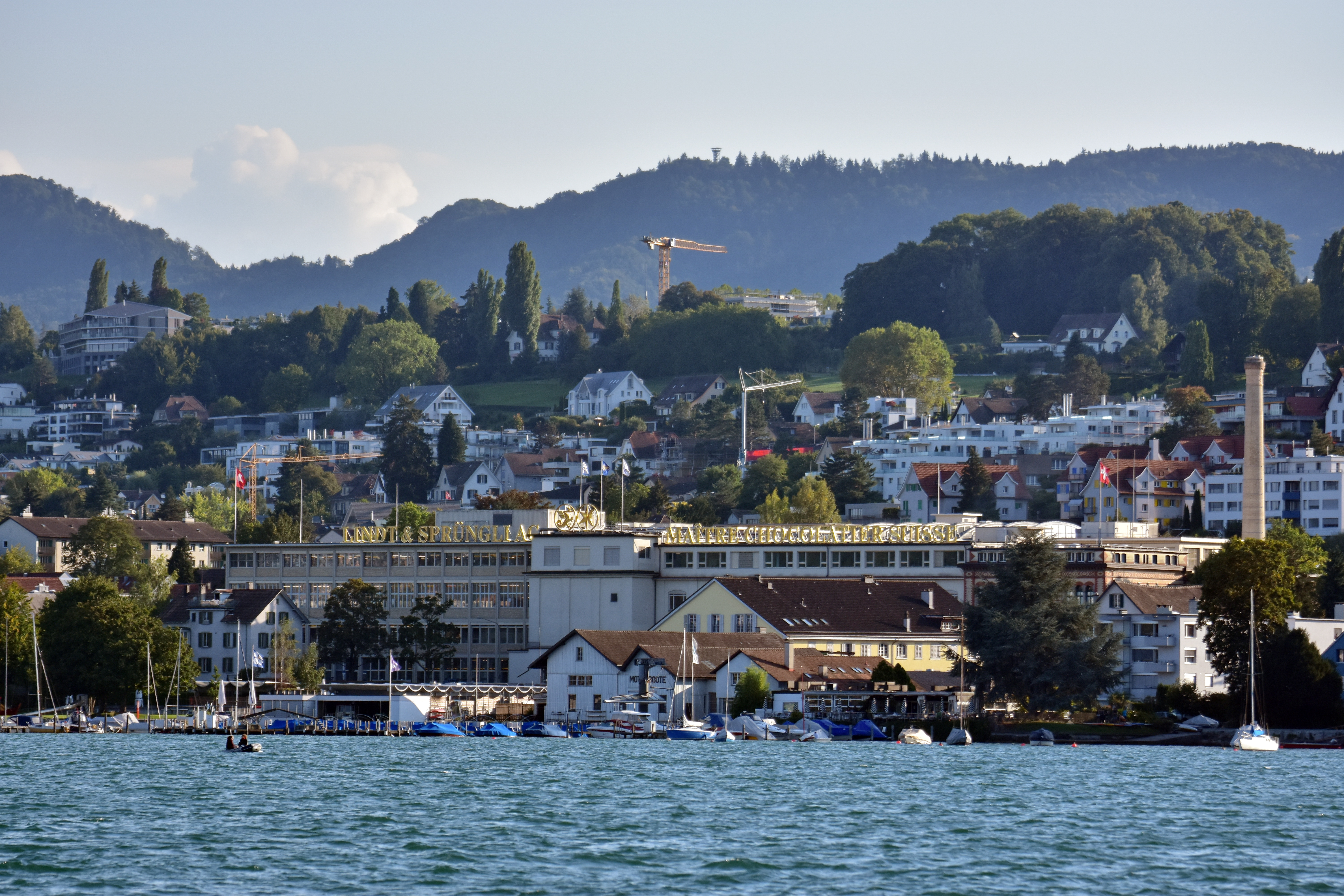 Lindt & Sprüngli as seen from ZSG ship MS Helvetia on Zürichsee in Switzerland